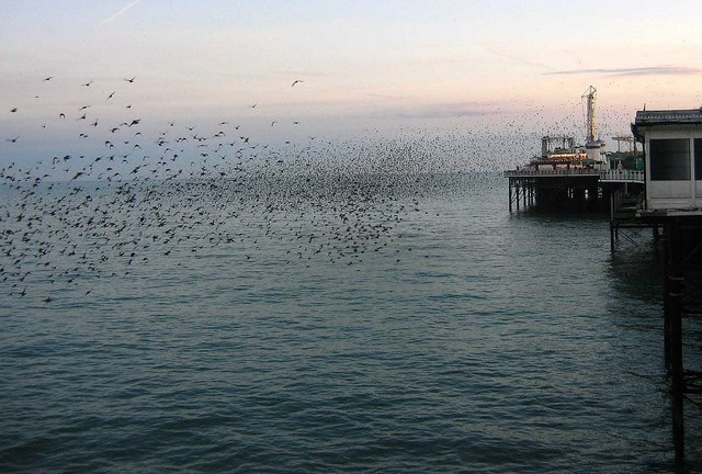 Starlings come to roost Brighton is well known for its roost sites of Starlings during the winter months. Many thousands can be observed here at dusk at the Palace Pier and further along the coast at Brighton Marina.